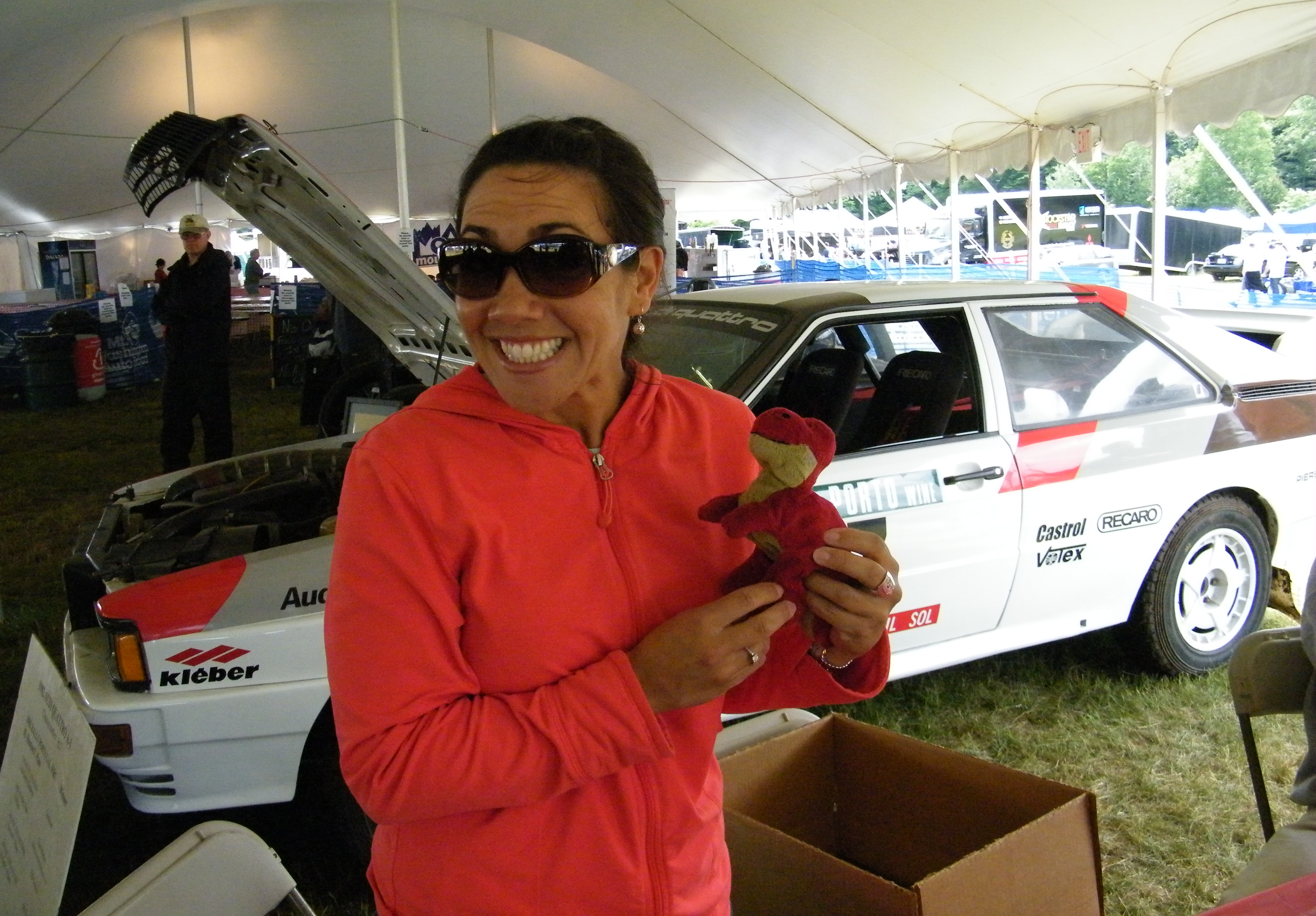 Natalie Richard at the Mt Washington Hillclimb 2011